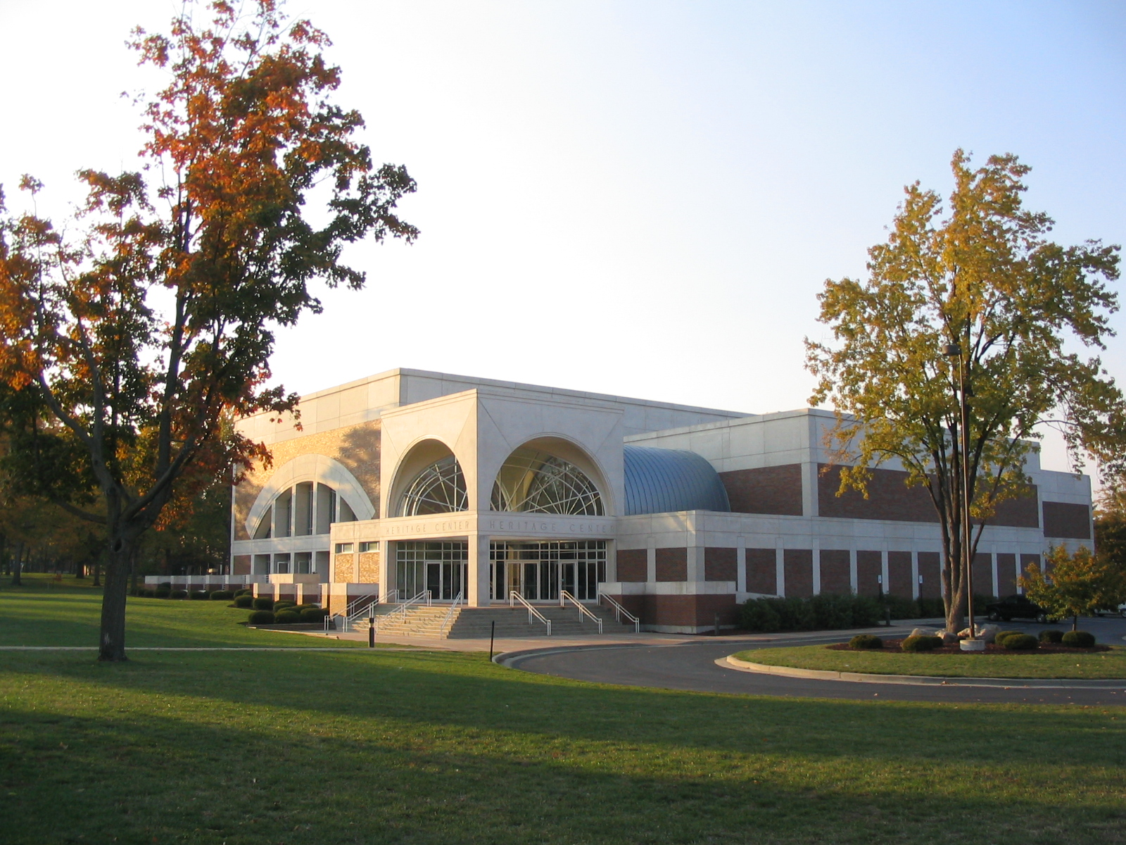 Oscar E Remick Heritage Center, Alma College, Alma, Michigan, USA